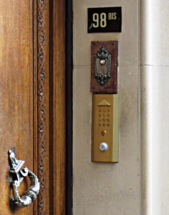 number names; example for latin names used for subnumbering: 1, 1-bis, 1-ter etc